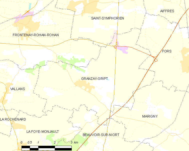 Map of French municipality Granzay-Gript